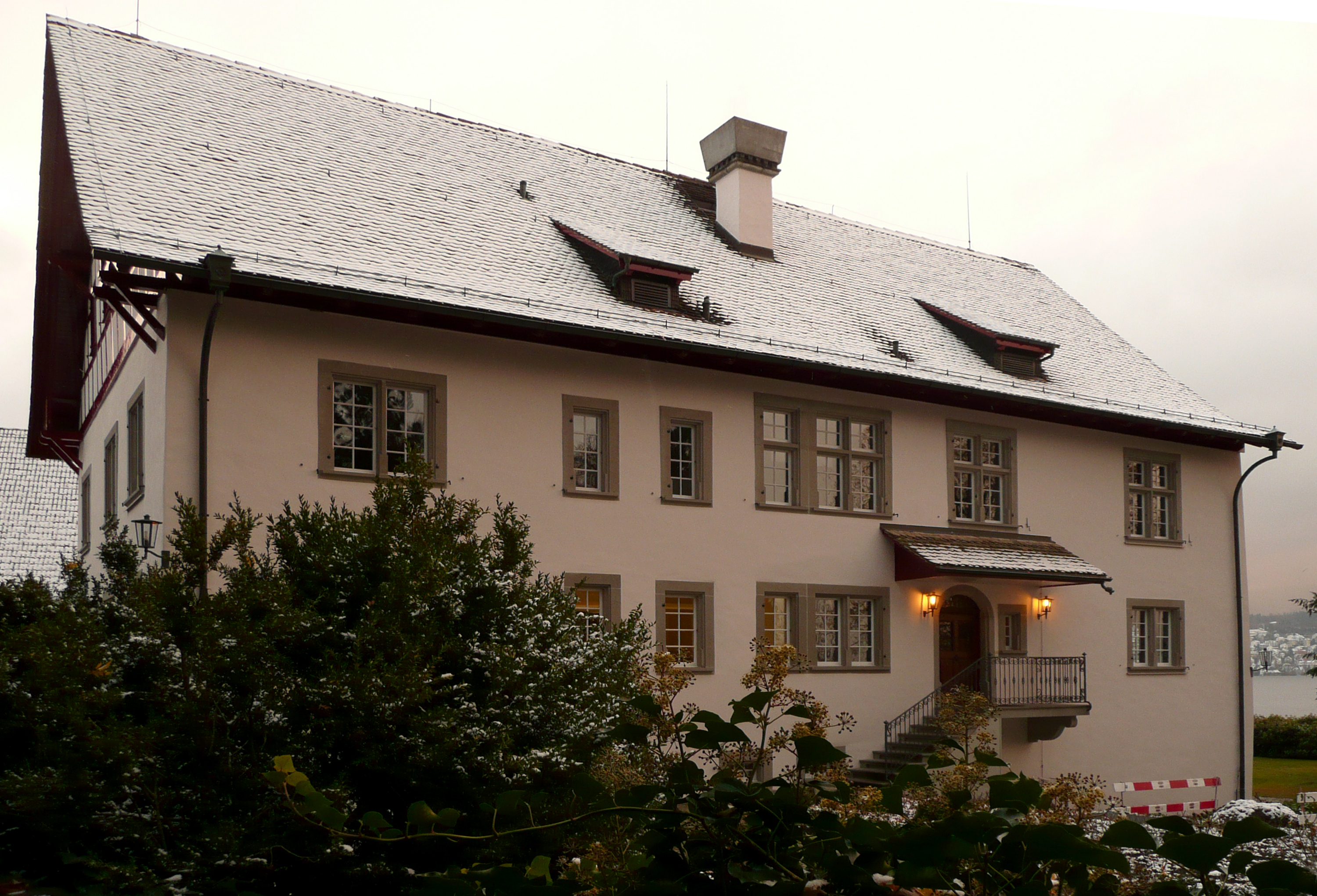 C. G. Jung institute in Küsnacht, Switzerland. Photo taken by my mother who is an admirer of Jung and his work.